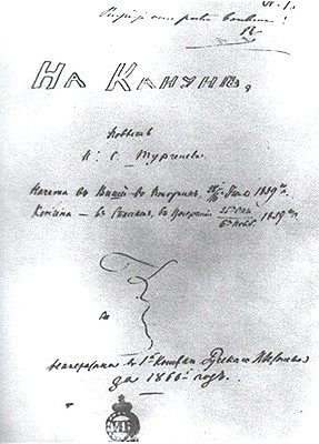 The third novel by famous Russian writer Ivan Turgenev (1818-1883)